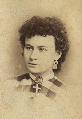 Josefina Countess Kaunitz née Čermáková (1849–1895), Czech actress and opera singer, sister-in-law of Antonín Dvořák